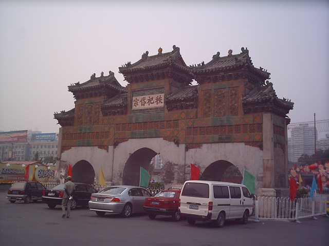 Depicted place: Beijing Dongyue Temple